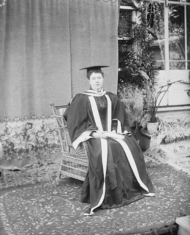 The Countess of Aberdeen (née Ishbel Maria Marjoribanks) in the robes which she wore when she received an honorary L.L.D. from Queen's University, the first time an honorary degree was conferred on a woman by a Canadian university.